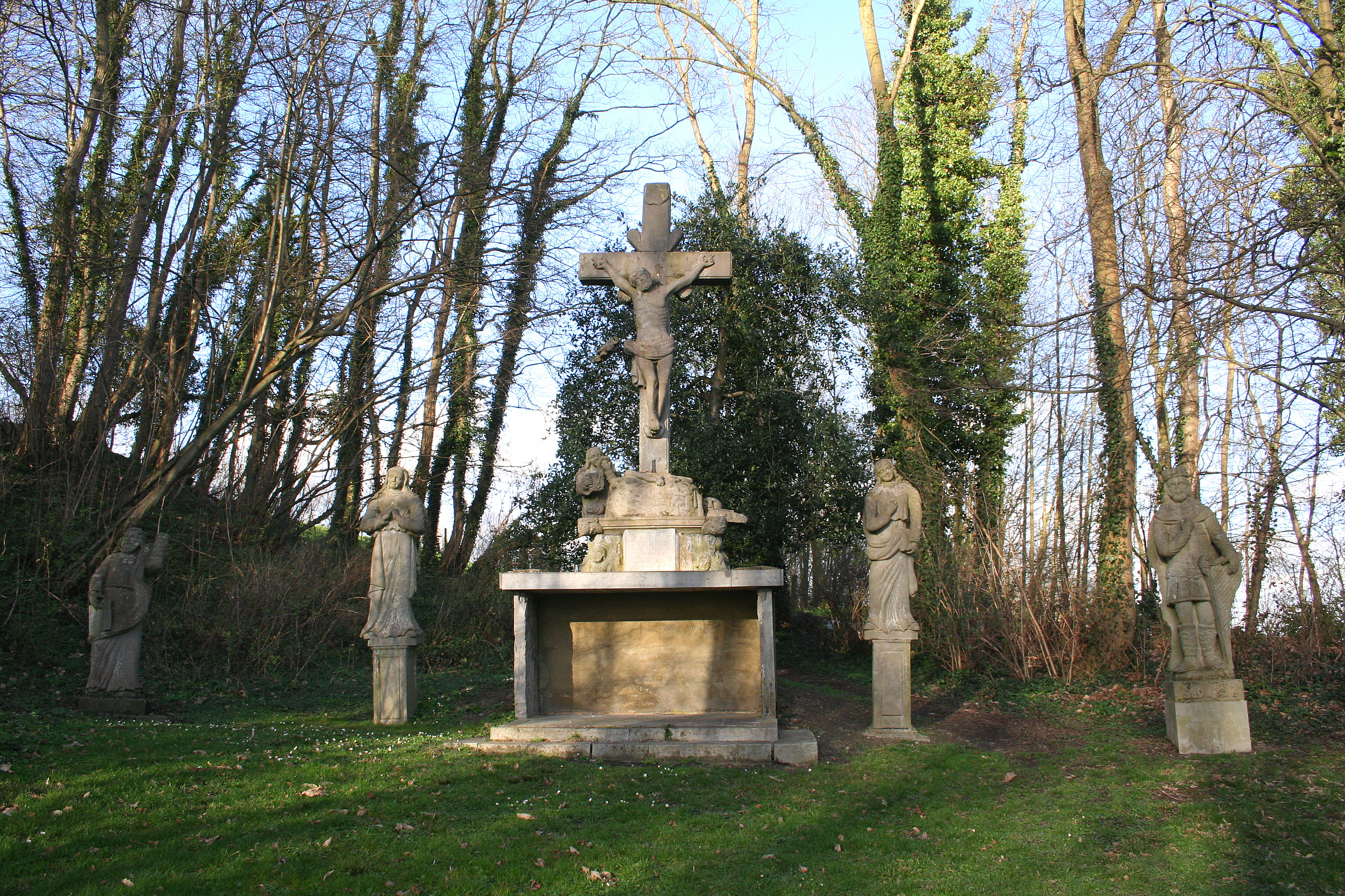 Mainvault (Belgium), the old calvary erected by J.P. Depote (1808) – Scupltures by J.J. Bottemanne (1775).